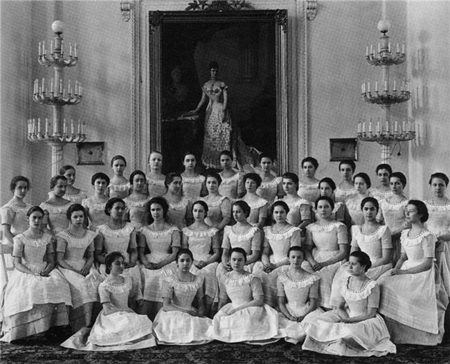 Smolny institute: the last graduates